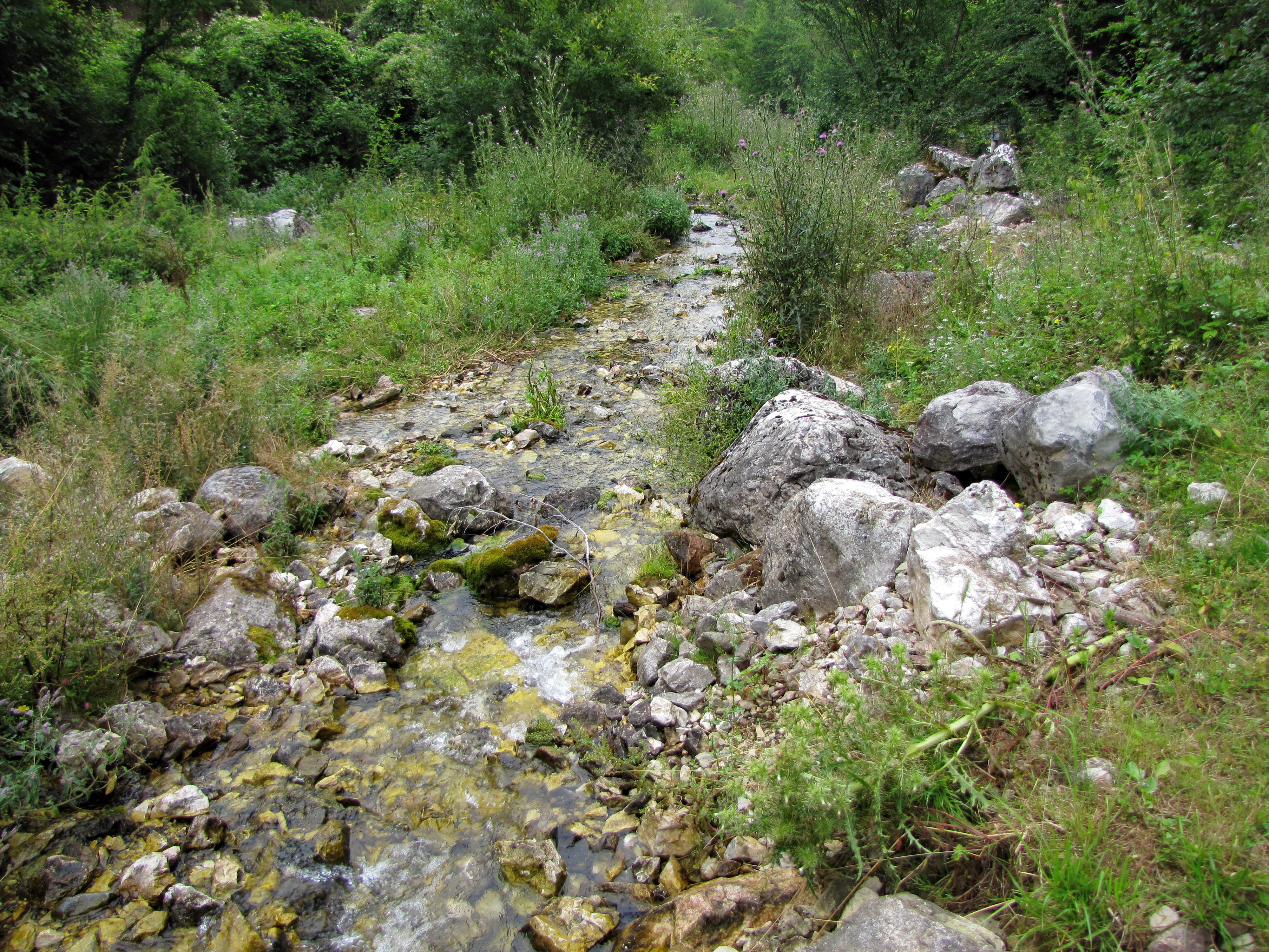 Smolućka river gorge and valley (SW Serbia).